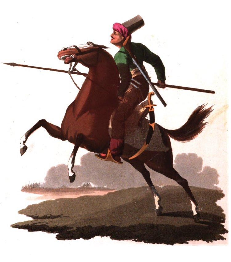 'The Turkish light cavalry are remarkable for their activity, particularly those which have been raised in Georgia. Many of the corps have the privilege of selecting their own weapons; they carry pikes of different lengths, usually about six feet, having an iron point or spear, sometimes ornamented with a tassel, composed of feathers or hair. Some of these corps carry a battle-axe, but the sabre and pistols are more generally used, as is the Mameluke saddle. The body of light cavalry, denominated Delhis, or Desperadoes, is very formidable in the charge; the attack is made in troops, and the rush on the enemy is accompanied with a shout of "Allah! Allah!" from every man, as an invocation to the Deity. They boast of their temerity; and their conduct evinces a contempt for danger and fearlessness of death: with such dauntless spirits, if properly directed, what might not be achieved? They are attentive to duty, and ever watchful; their horses are constantly girthed, whether in a stable or at the piquet, and their arms in good order, and constantly about their persons.'